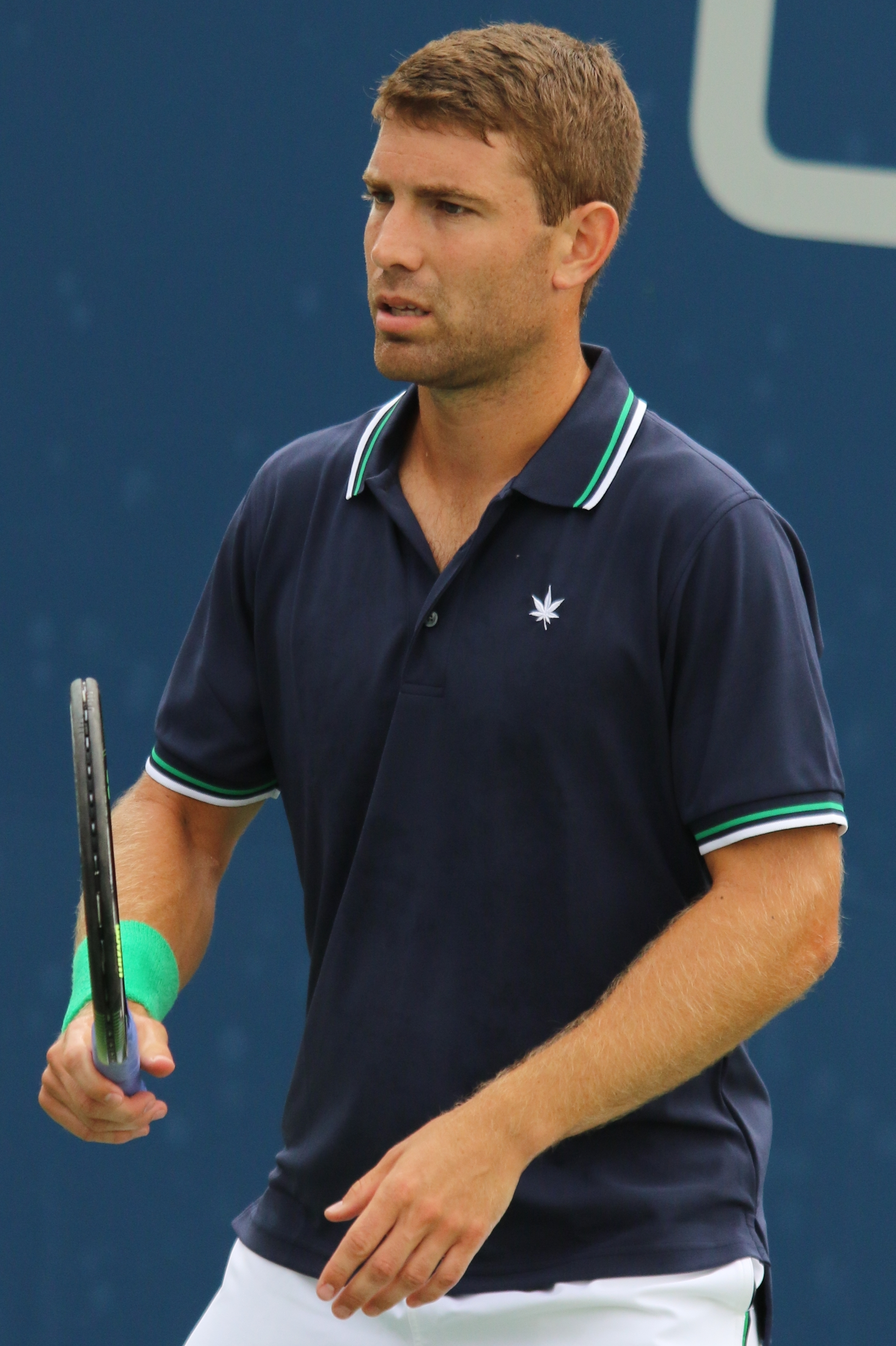 Quigley US16 (22)